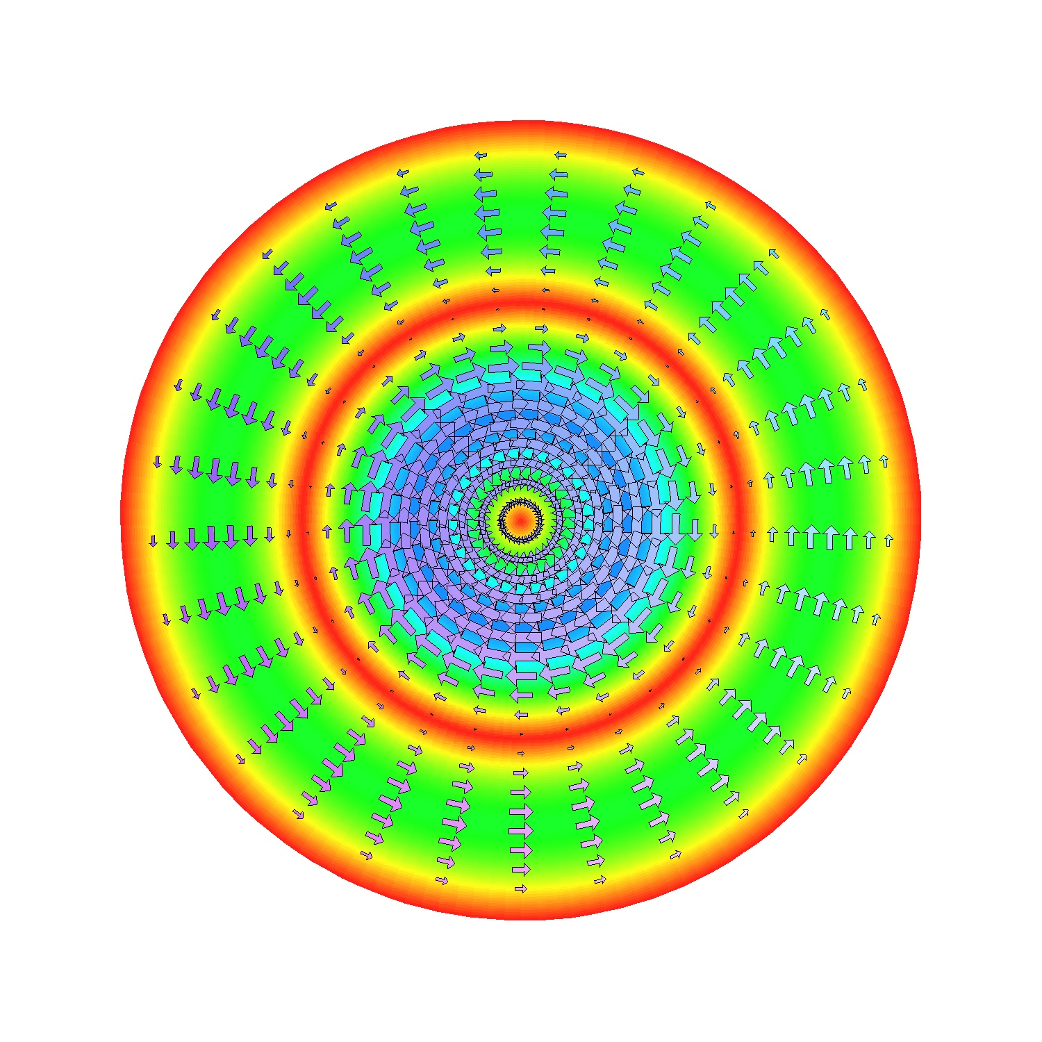 Plot of E and H fields on the TEnl mode defined by n and l.